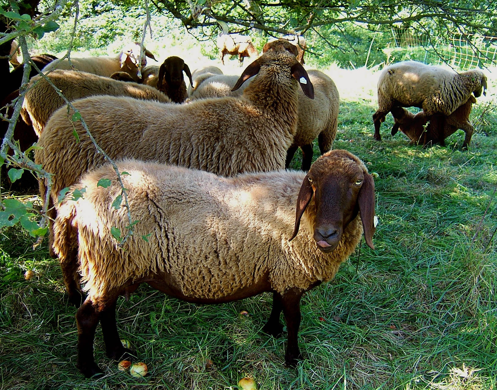 Sheep and drinking lamb of breed “Braunes Bergschaf” beneath an apple tree in Rems valley in Baden-Württemberg, Germany